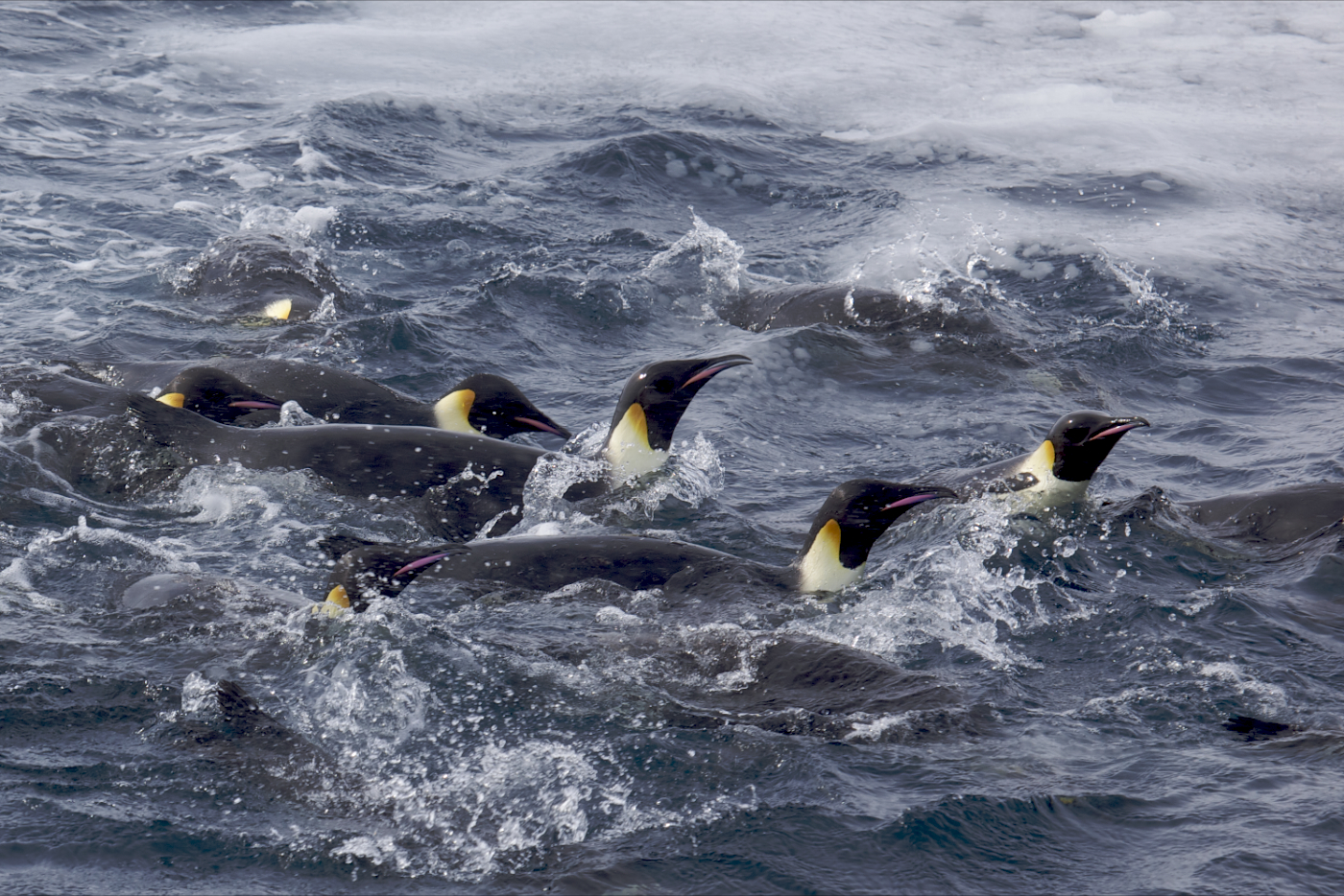 Emperor Penguins swimming in Antarctica.